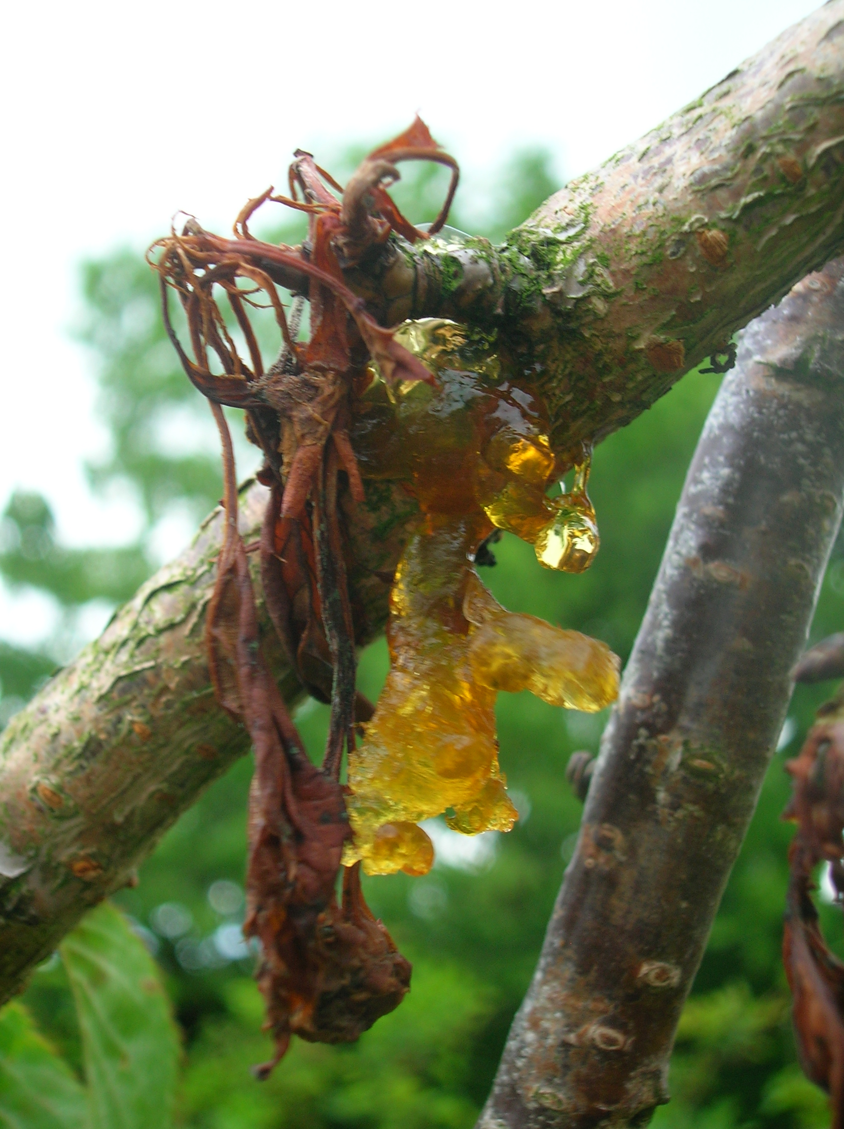 Leaf death and gummosis due to bacterial canker (Pseudomonas syringae) on Cherry (Prunmus avium), Chapeltoun, North Ayrshire, Scotland.